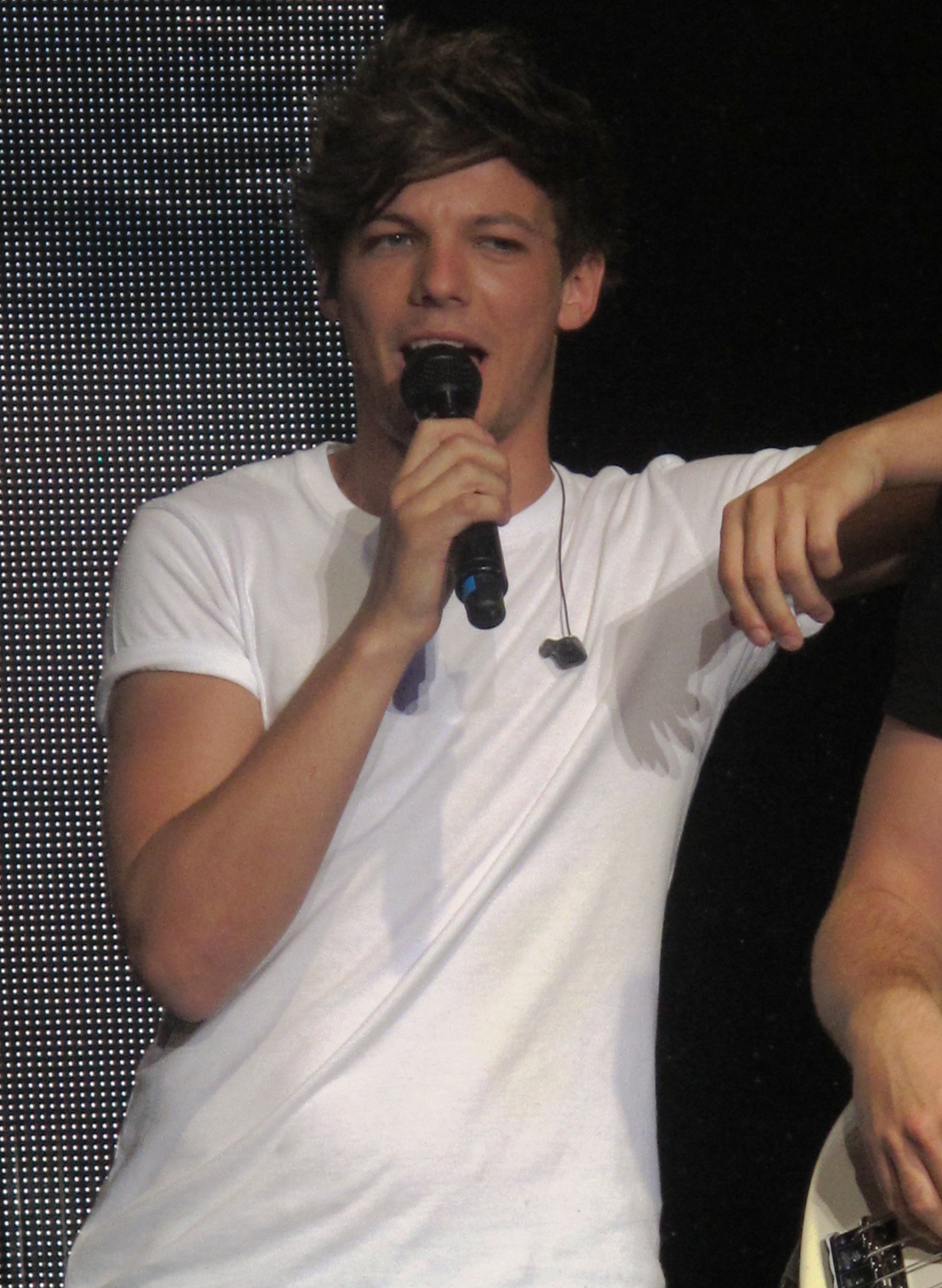 One Direction's Louis Tomlinson.